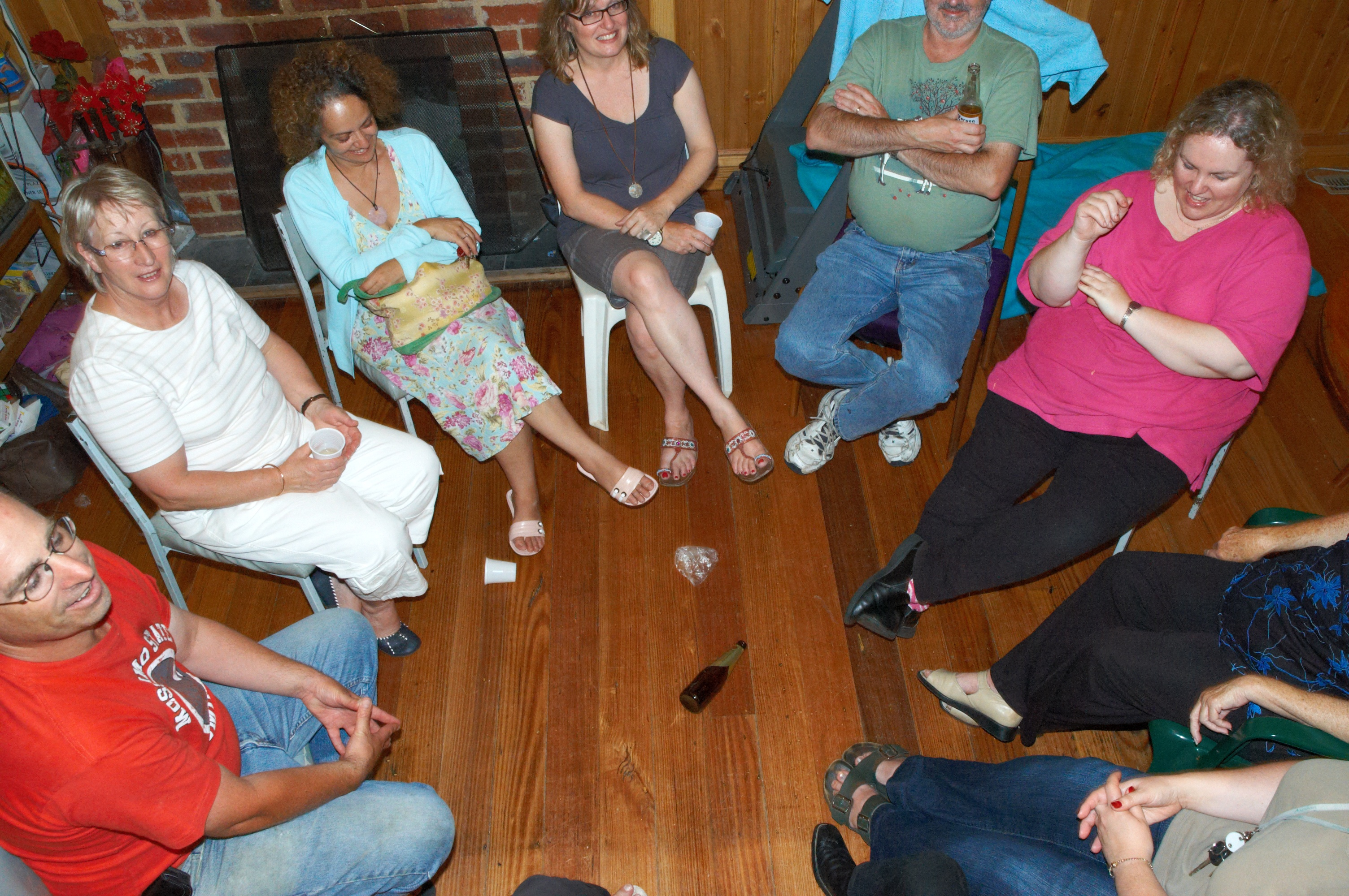 A game of Spin the bottle in progress